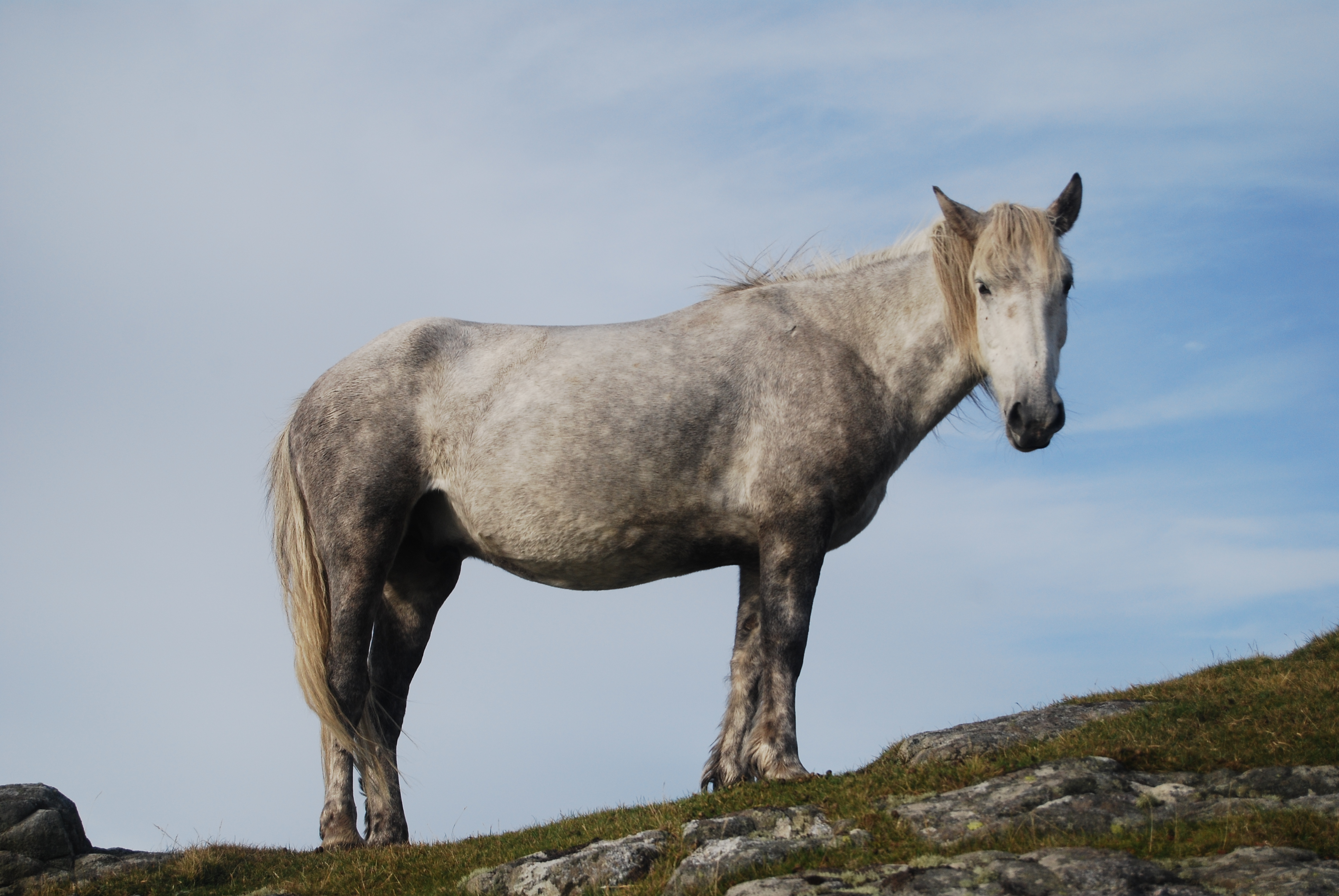 Eriskay pony, Beinn Sciathan, Eriskay